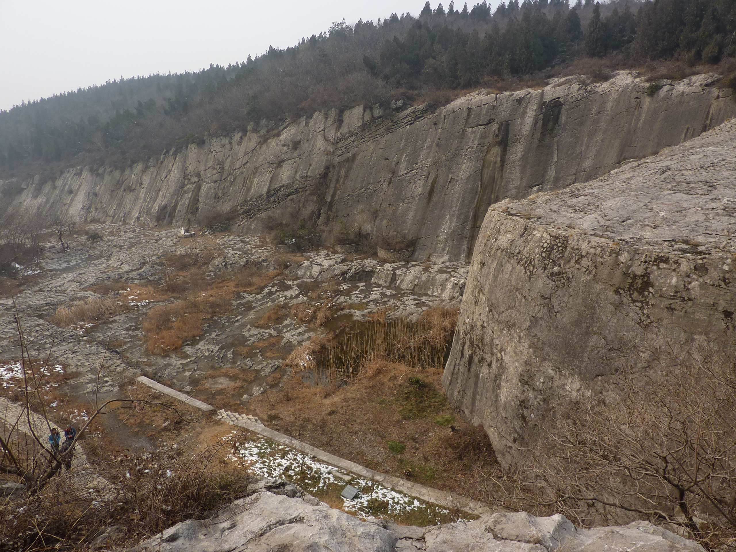 The southwestern pit of the Yangshan Quarry, seen from the "plateau" east of it. Part of the Monument Base is seen on the right.